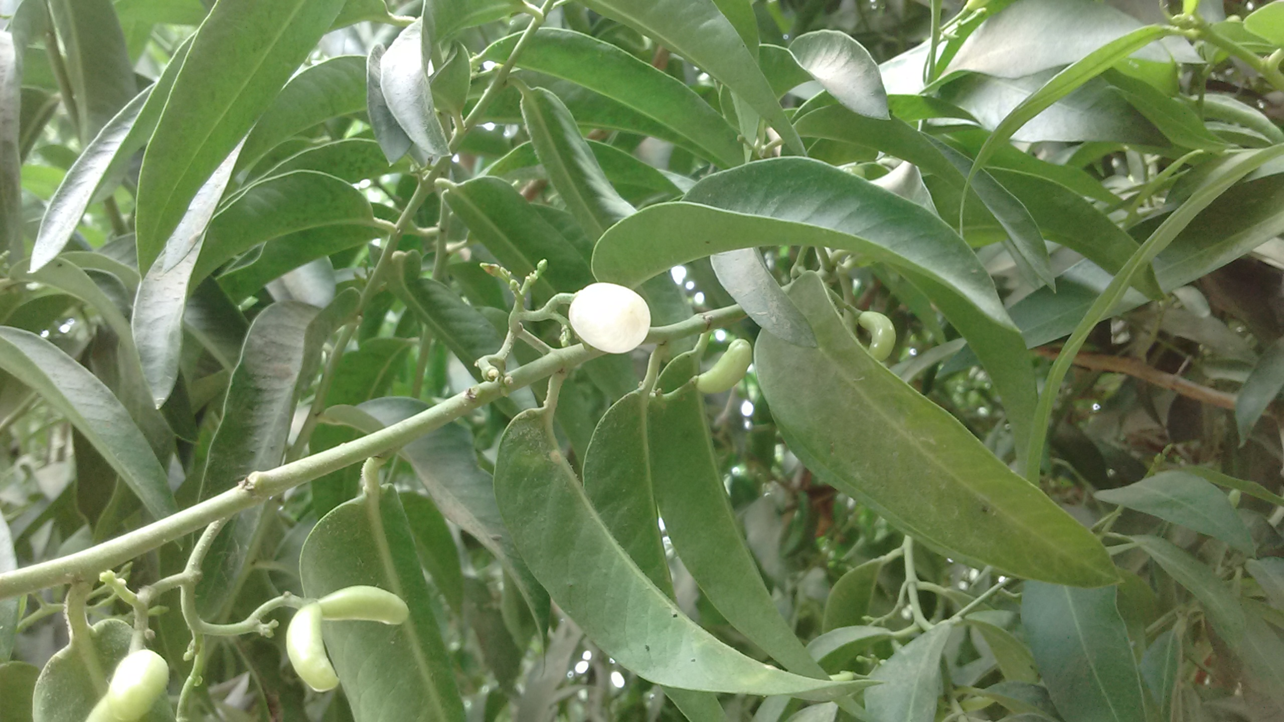 Leaves and fruit of Vallesia glabra, the pearlberry.